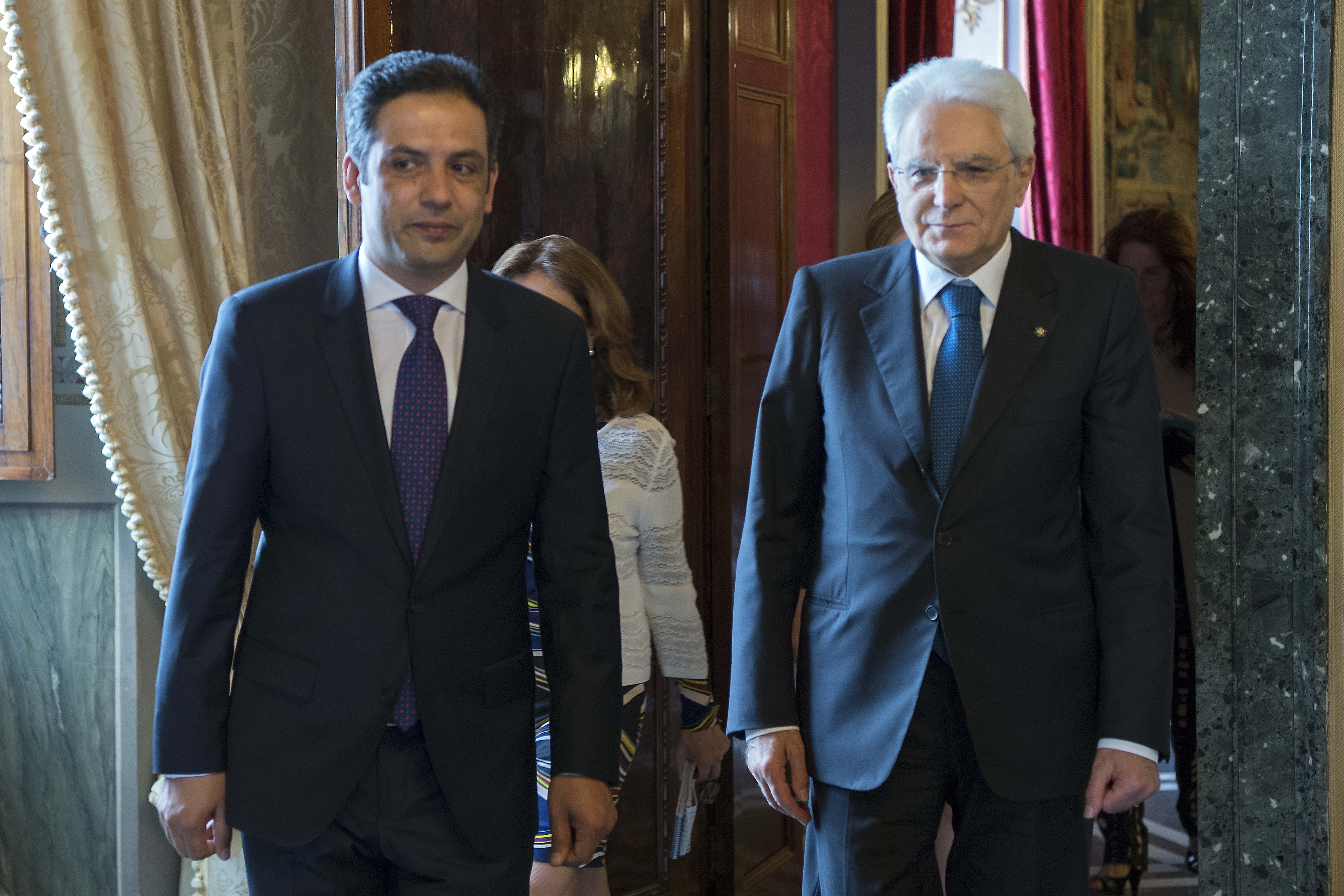 Waheed Omer with Sergio Matarella, President of Italy in Quirinale Palace, Rome.